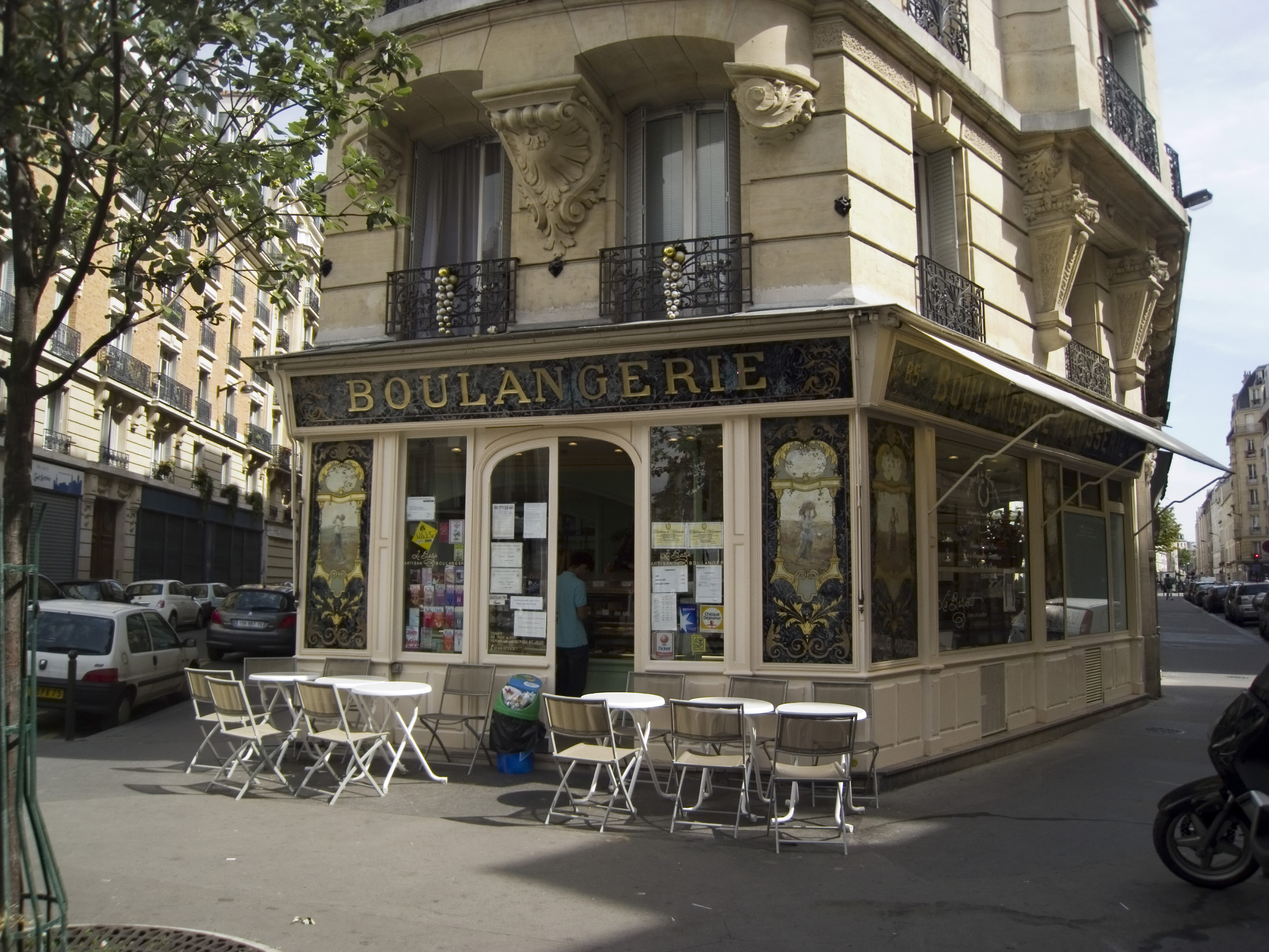 Bakery, intersection of rue Émilio-Castelar, 2, and rue de Charenton, 85bis, in Paris XIIe arrondissement.